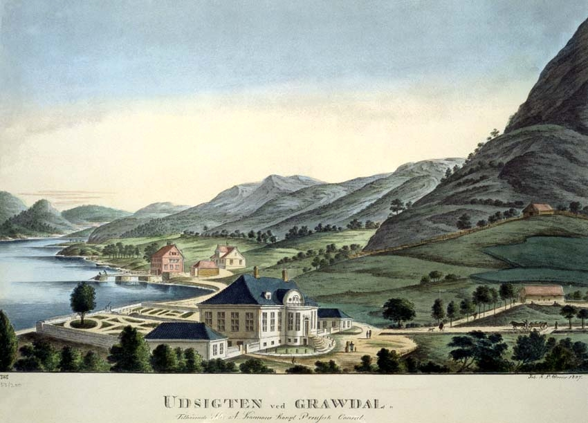 Prospect "Udsigten ved Grawdal"detail